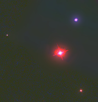 V915 Scorpii and companions. Image from Hubble Legacy Archive data.